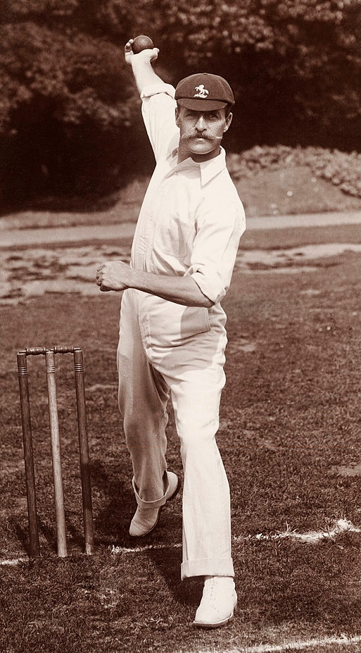 Alec Hearne, Kent county cricket club, 31st August 1903